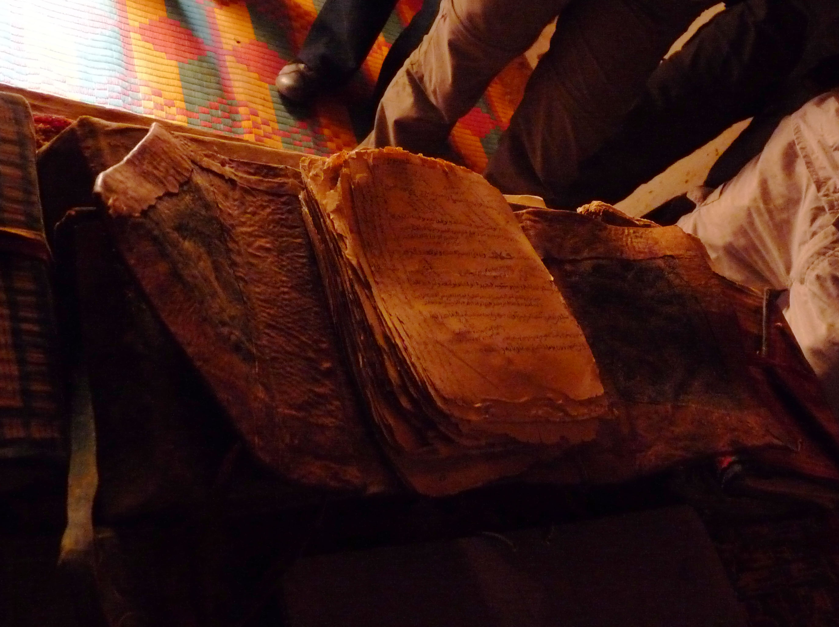 Old manuscript in Chinguetti library (Mauritania)